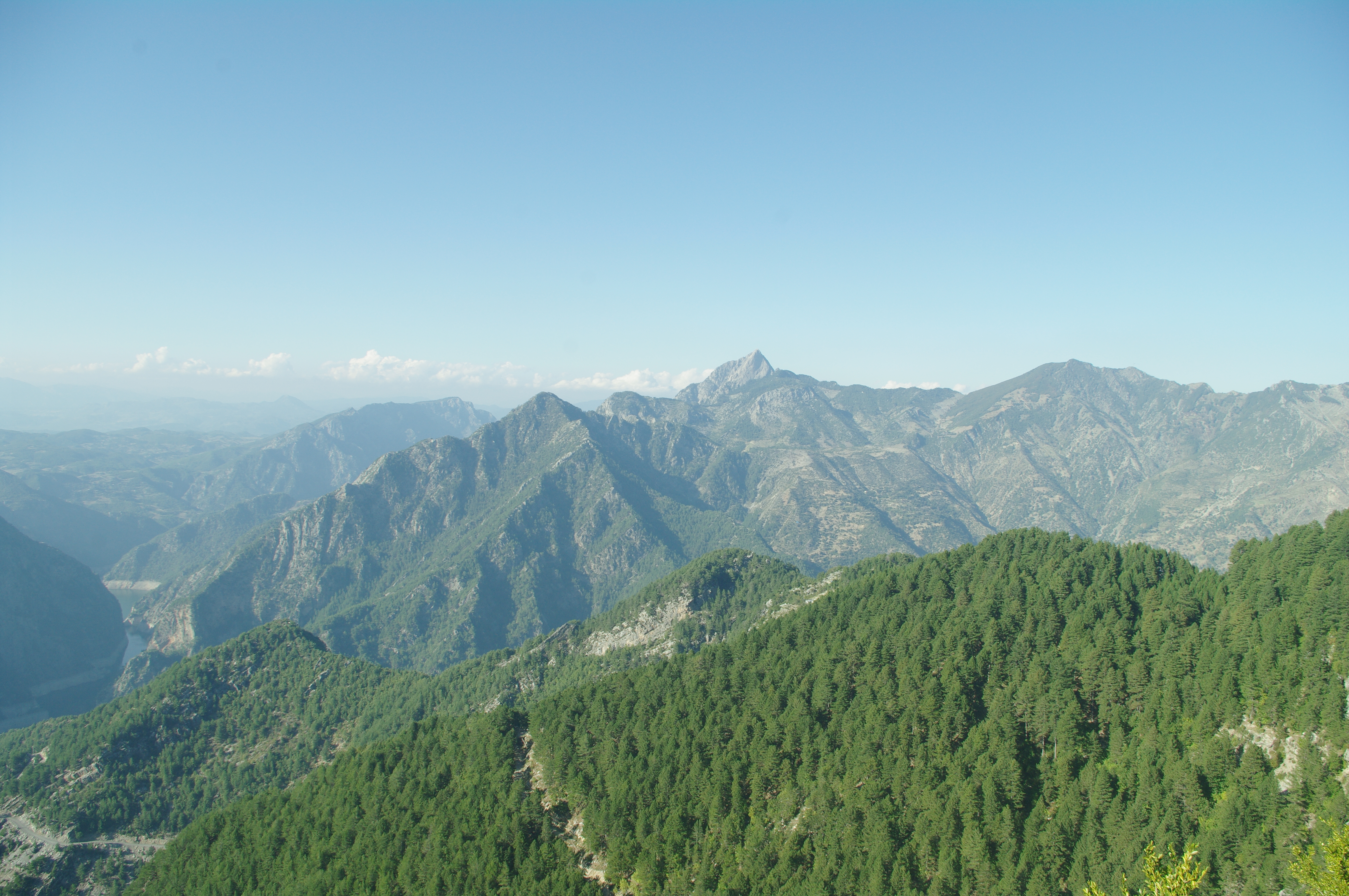 A view of the lower end of Berke Dam on Ceyhan River from Mount Düldül, Düziçi - Osmaniye, Turkey.